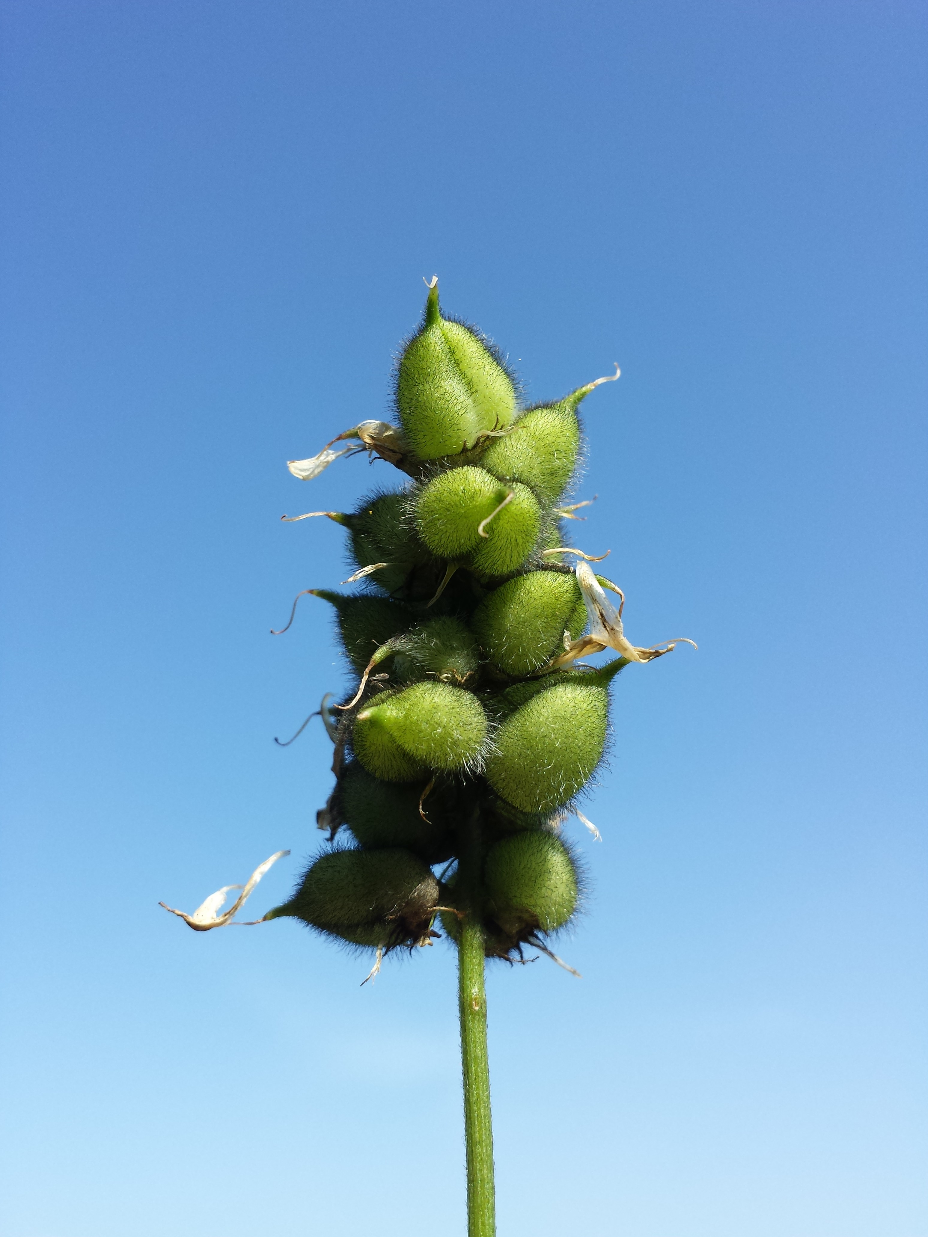 Infructescence Taxonym: Astragalus cicer ss Fischer et al. EfÖLS 2008 ISBN 978-3-85474-187-9 Location: near Niederhollabrunn, district Korneuburg, Lower Austria - ca. 350 m a.s.l. Habitat: dry meadows